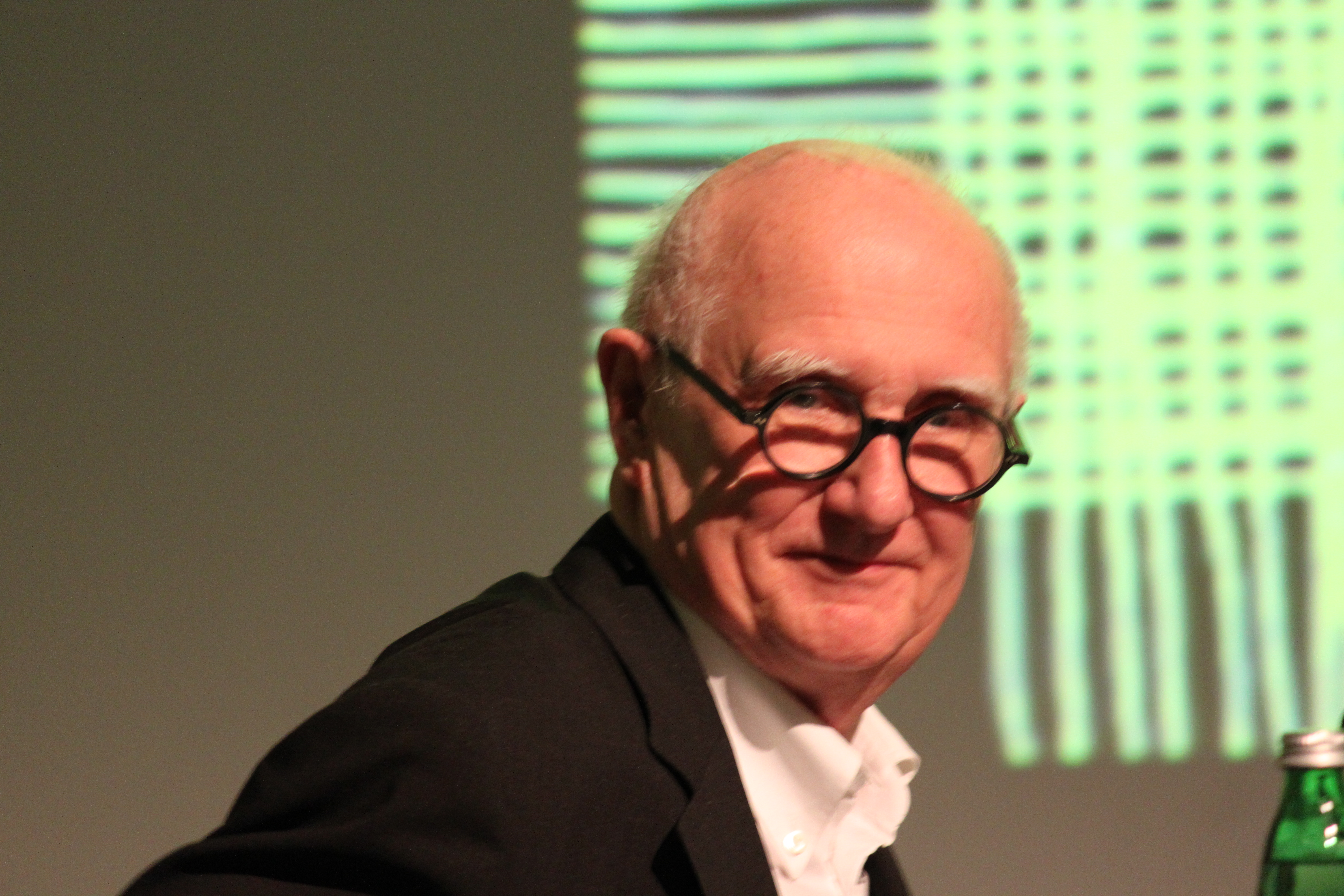 Friedrich Achleitner